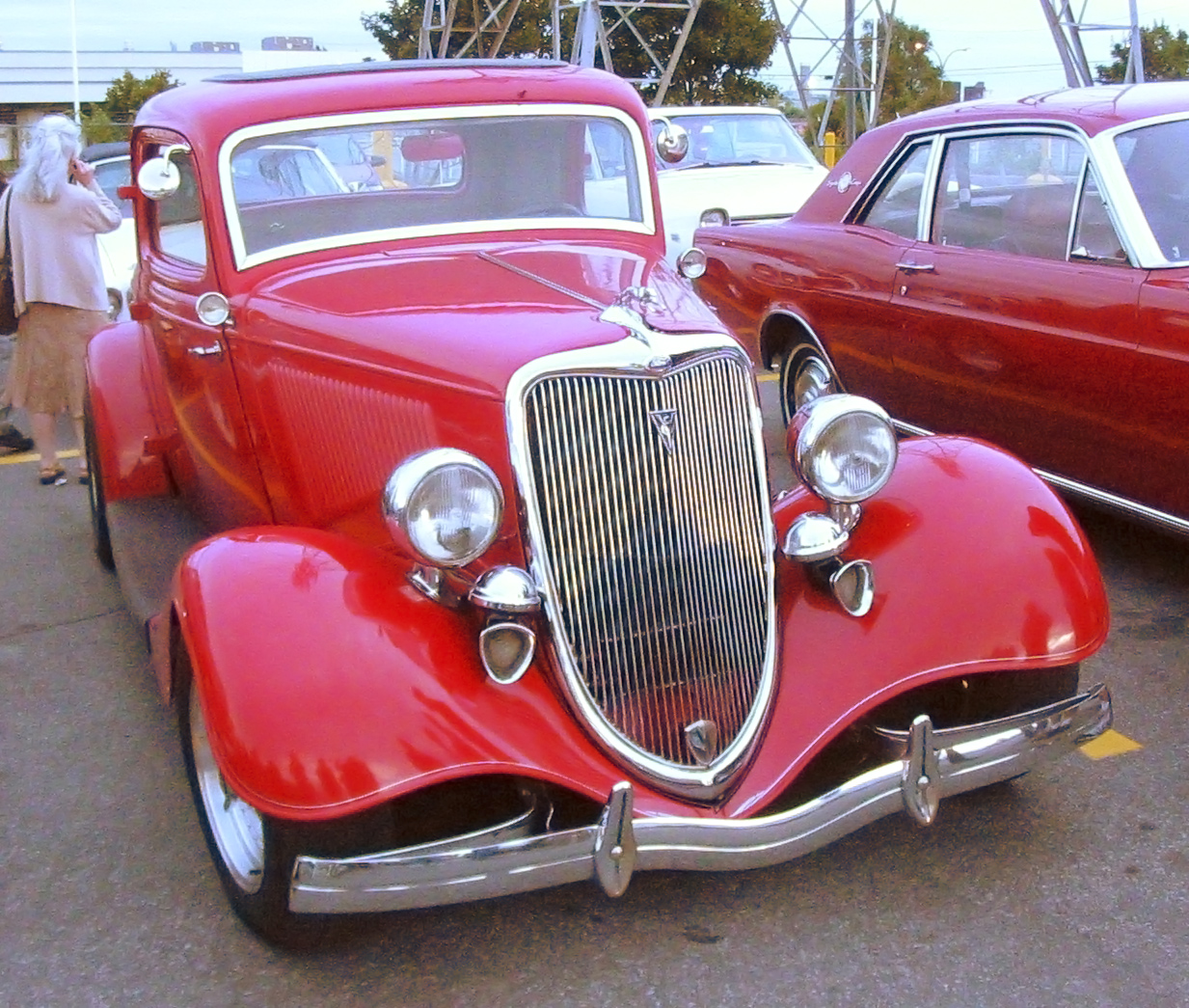 1934 Ford Model B photographed in Montreal, Quebec, Canada at Auto classique VACM mardis 2011.